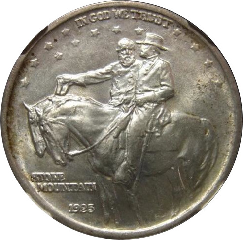 Obverse of a Stone Mountain Memorial half dollar